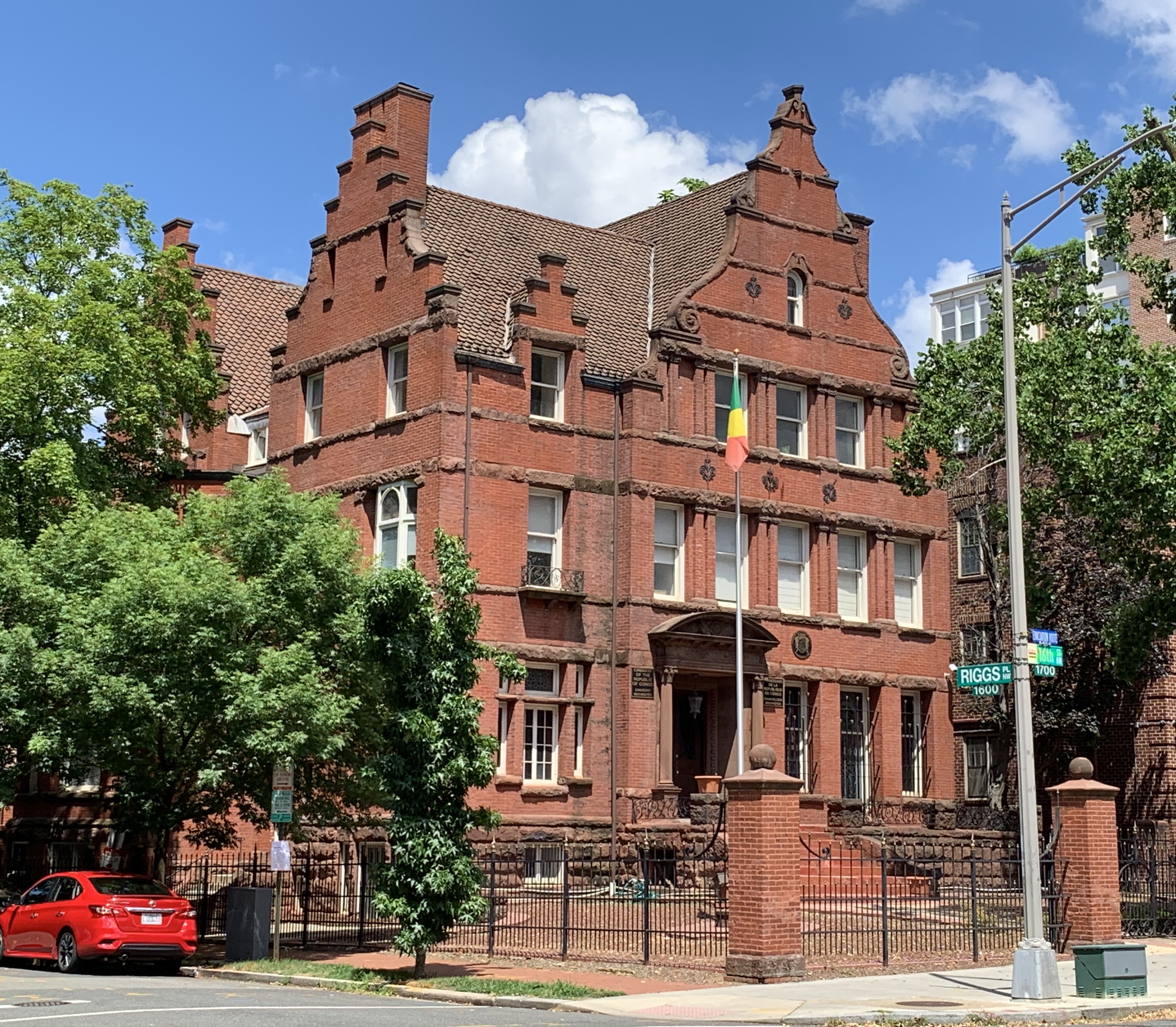 Embassy of the Republic of Congo in Washington, D.C., historically known as the Toutorsky Mansion in Washington, D.C.